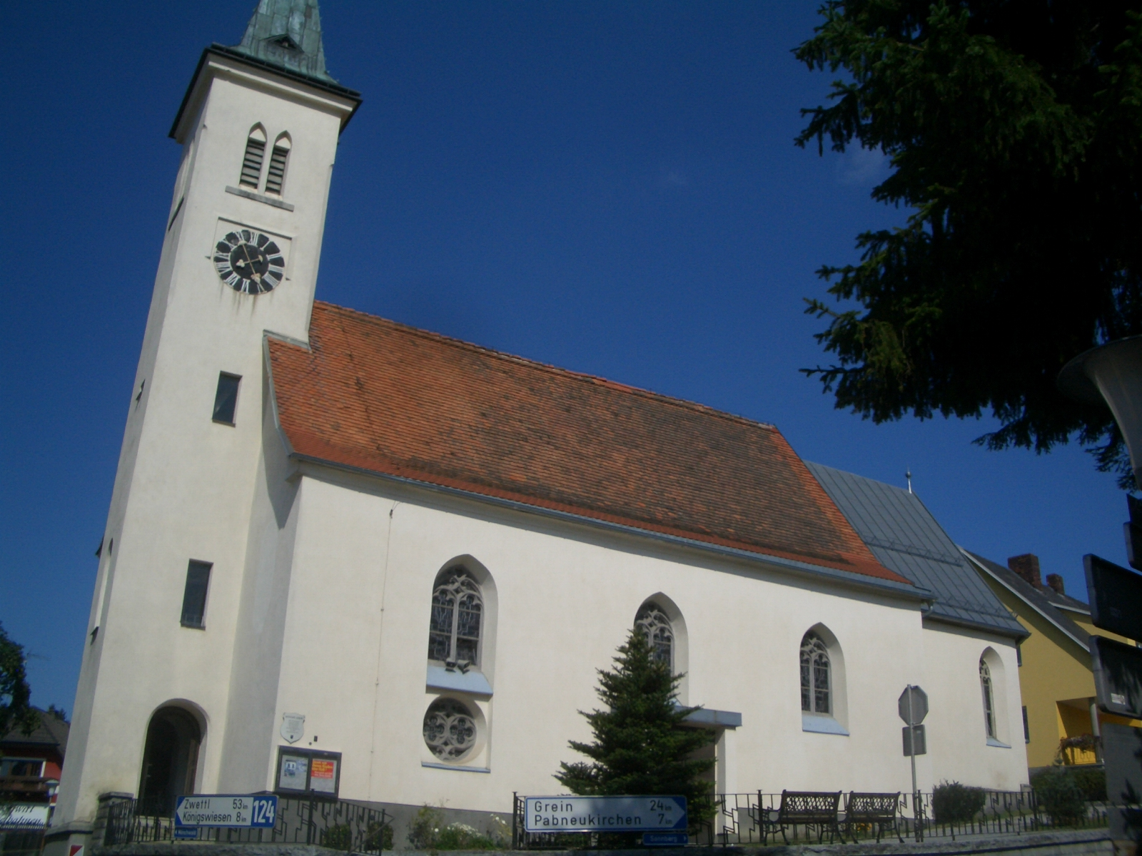 Church in Mönchdorf, near Königswiesen, Upper Austria